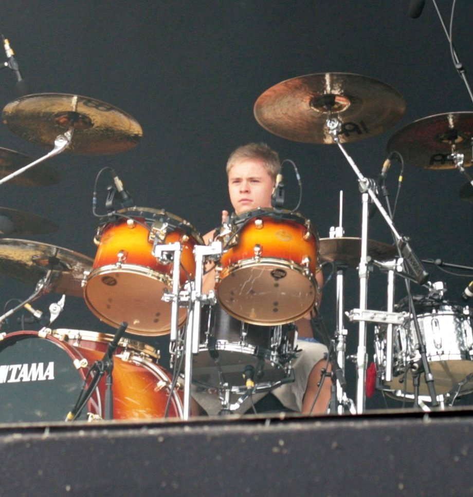 Gustav Schäfer performing at a festival in Hessisch-Lichtenau, Germany. 2006 by Pascal Parvex, (released into GFDL: info)